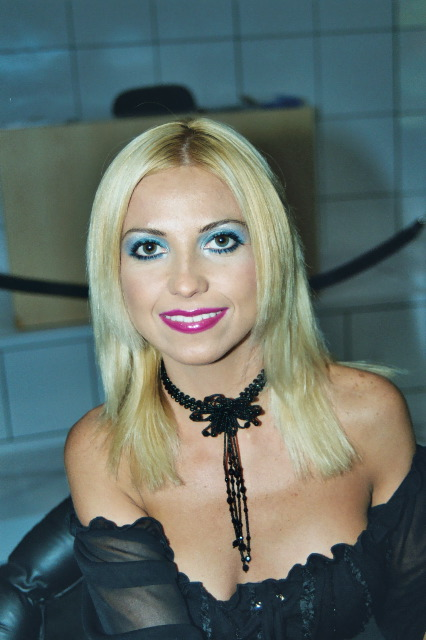 Allysin Chaynes